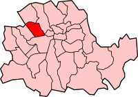 Map of the Metropolitan borough of St Marylebone, former County of London.